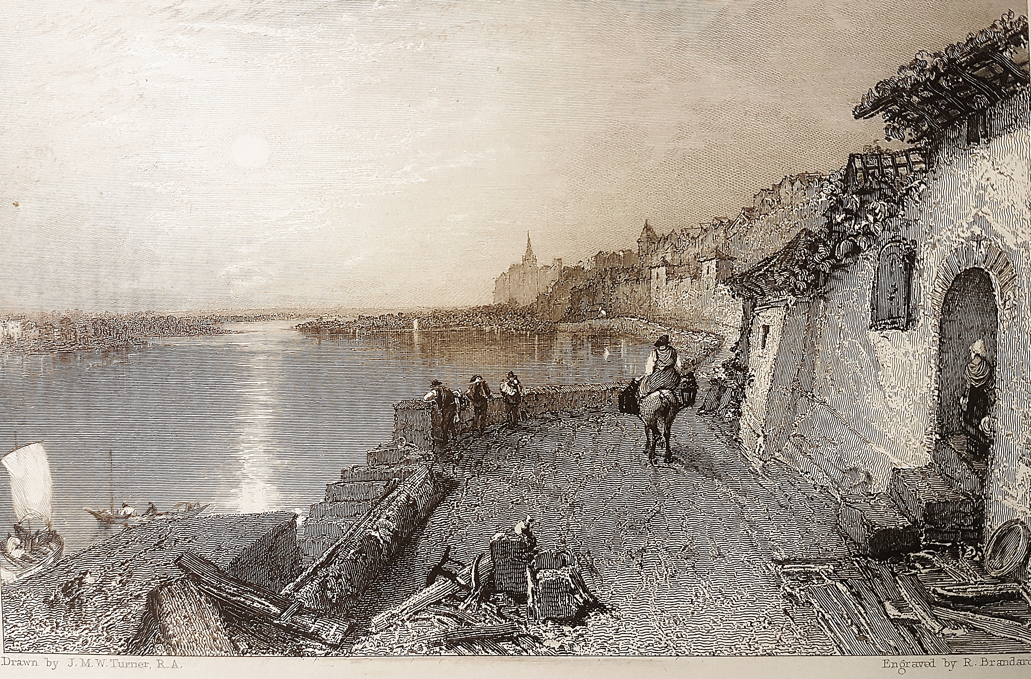 Joseph Mallord William Turner view of Montsoreau Loire Valley in 1826, Ashmolean Museum Oxford, engraved by R. Braudard in 1832. (See Tate Gallery)